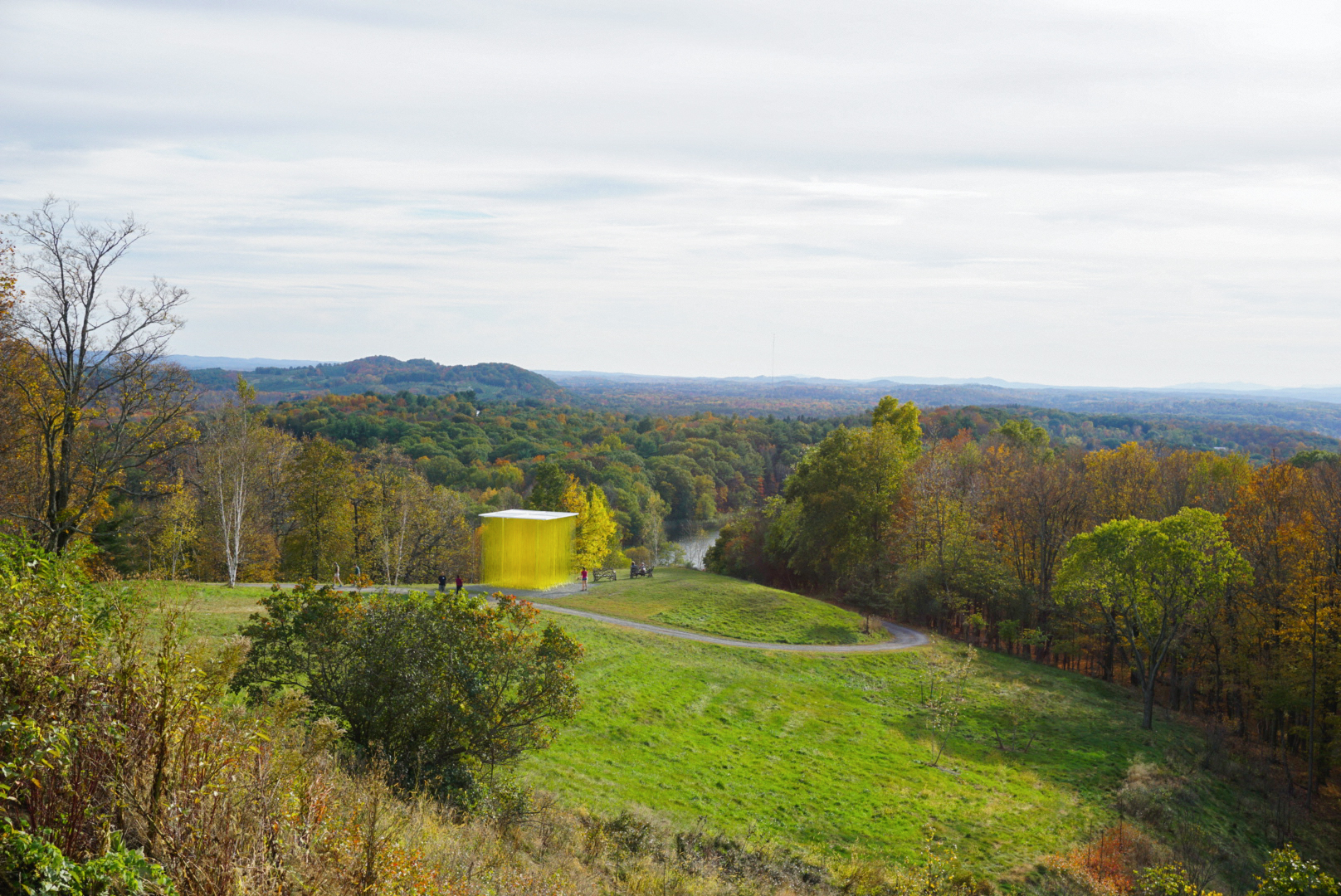 Olana State Historic Site in 2017.